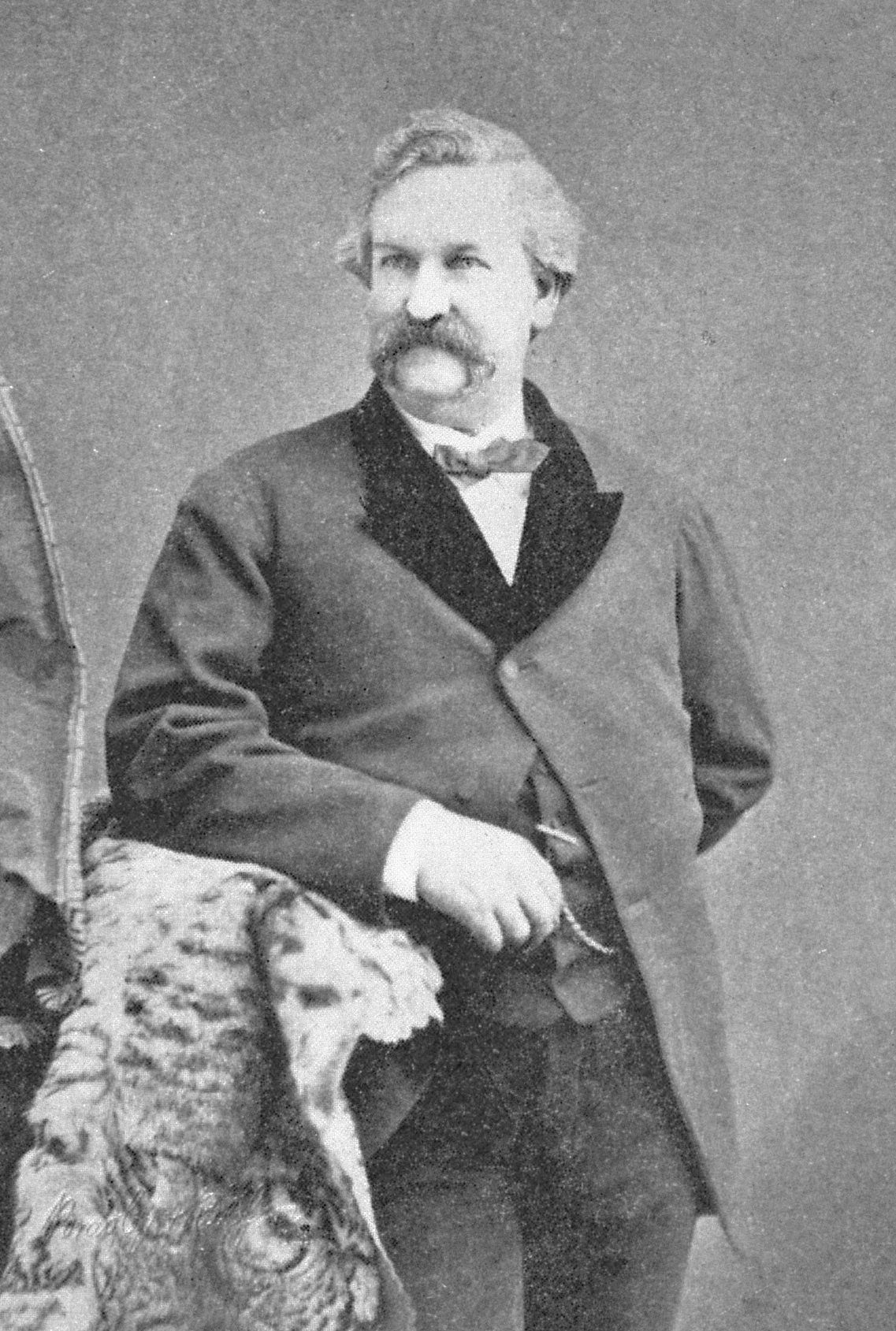 Portrait of actor and entomologist Henry "Harry" Edwards, appearing with the California Theatre Stock Company, given to poet Charles W. Stoddard. The inscription reads: "To my valued friend Chas. W. Stoddard -with my most affectionate regards San Francisco. Dec 9, 1871 Hy. Edwards."